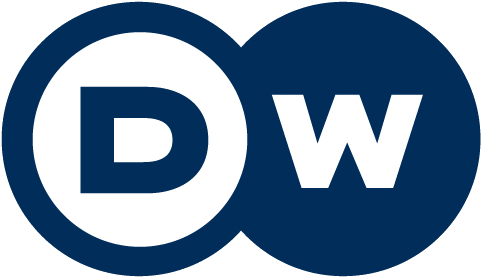 Logo of the new DW (TV), formely known as DW-TV.